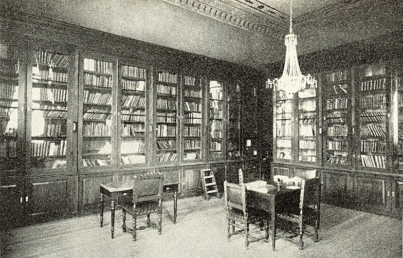 The library of Norrlands nation, student society at Uppsala University in Sweden.